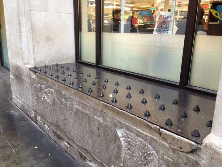 Everyone's up in arms about 'homeless spikes.' And rightly so. 2 things though: 1. Plenty of people are upset and sharing links in outrage who probably in general don't give a second thought to the homeless. 2. When I see these I think 'hey, get 2 or 3 la